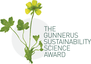 The symbol for the Gunnerus Sustainability Award, based on a preserved plant, Ranunculus acris (Norwegian: Engsoleie) from 1767, in Johan Ernst Gunnerus' herbarium